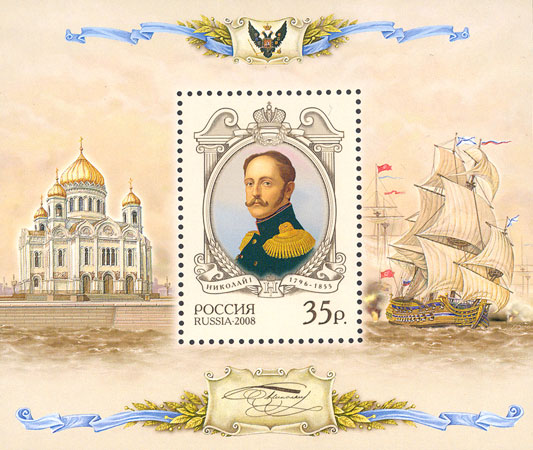 Stamp of the Russia, Nicholas I, 2008